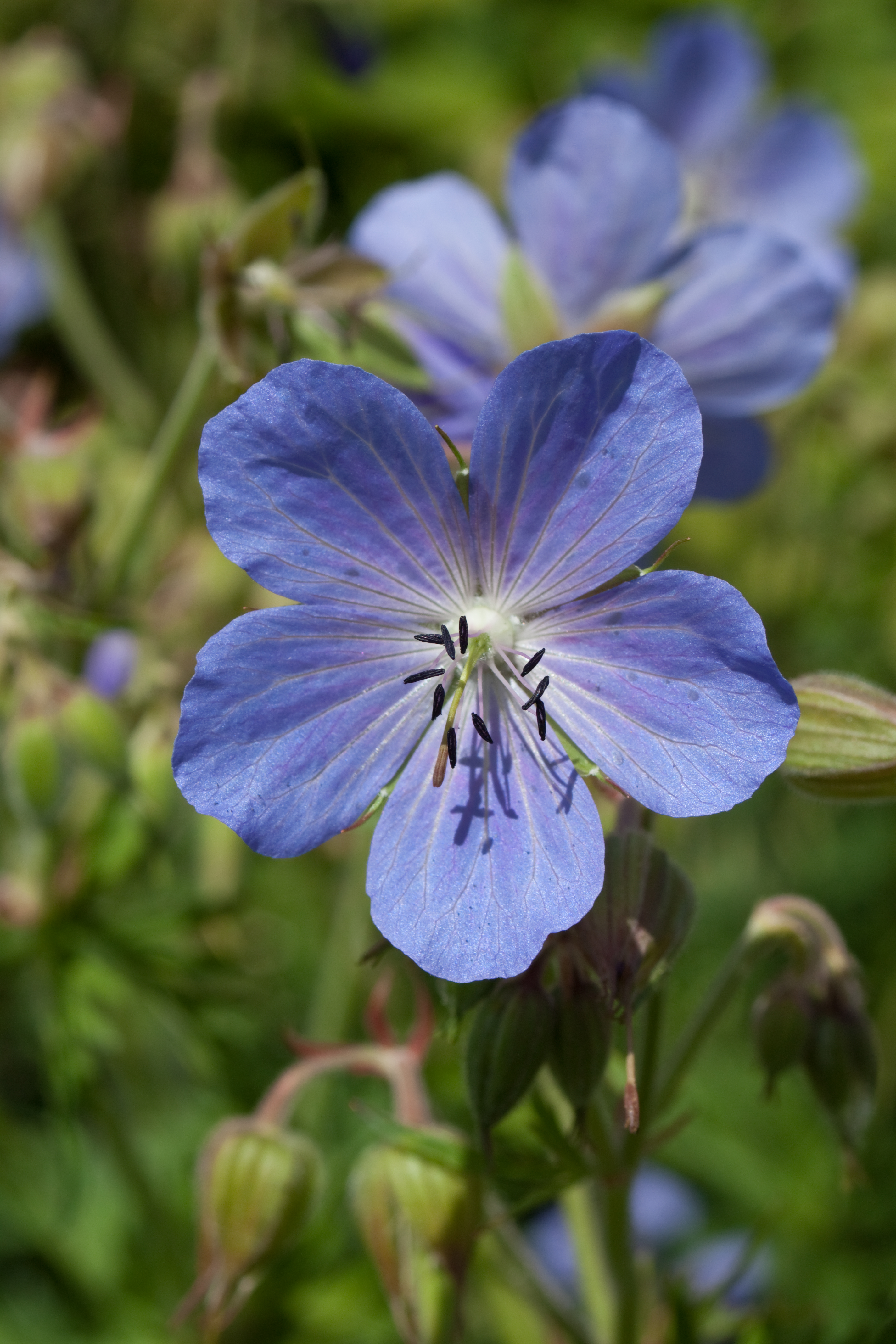 G. pratense (Meadow Cranesbill) photographed in the gardens of Forde Abbey, Somerset, UK. This flower may be a hybrid.